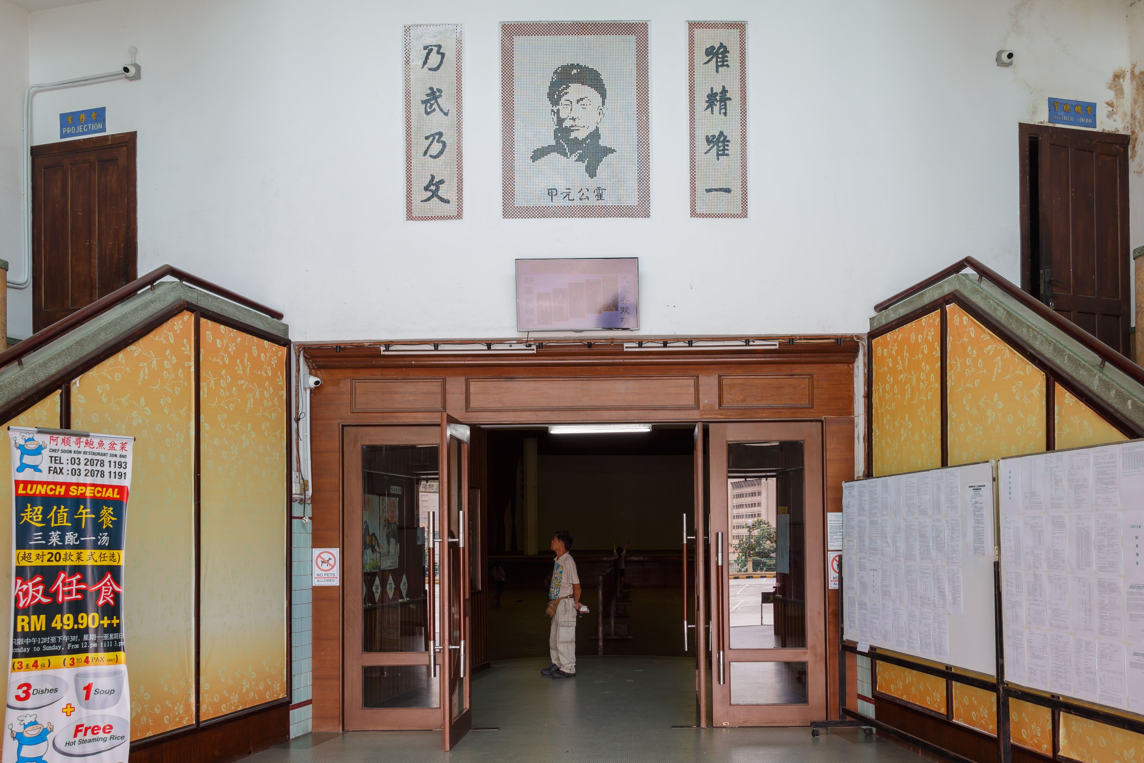 Kuala Lumpur, Malaysia: Entrance hall of Chin Woo Stadium